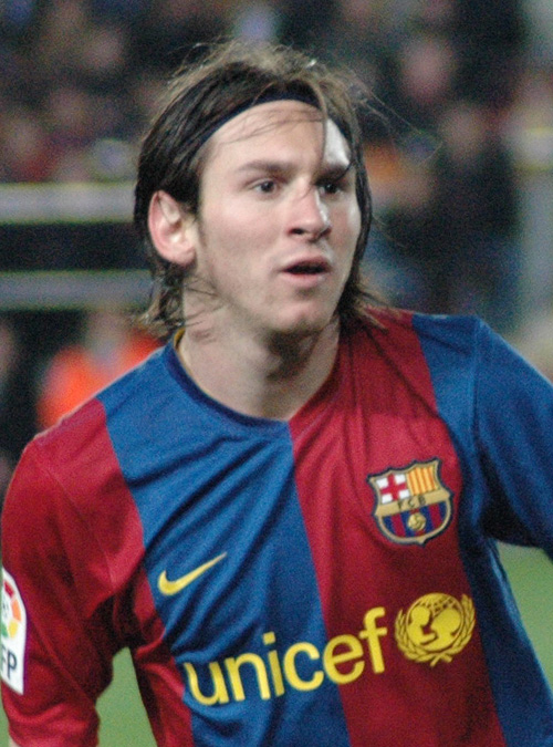 Lionel Messi, Futbol Club Barcelona's player, during the match FC Barcelona-Deportivo de La Coruña.